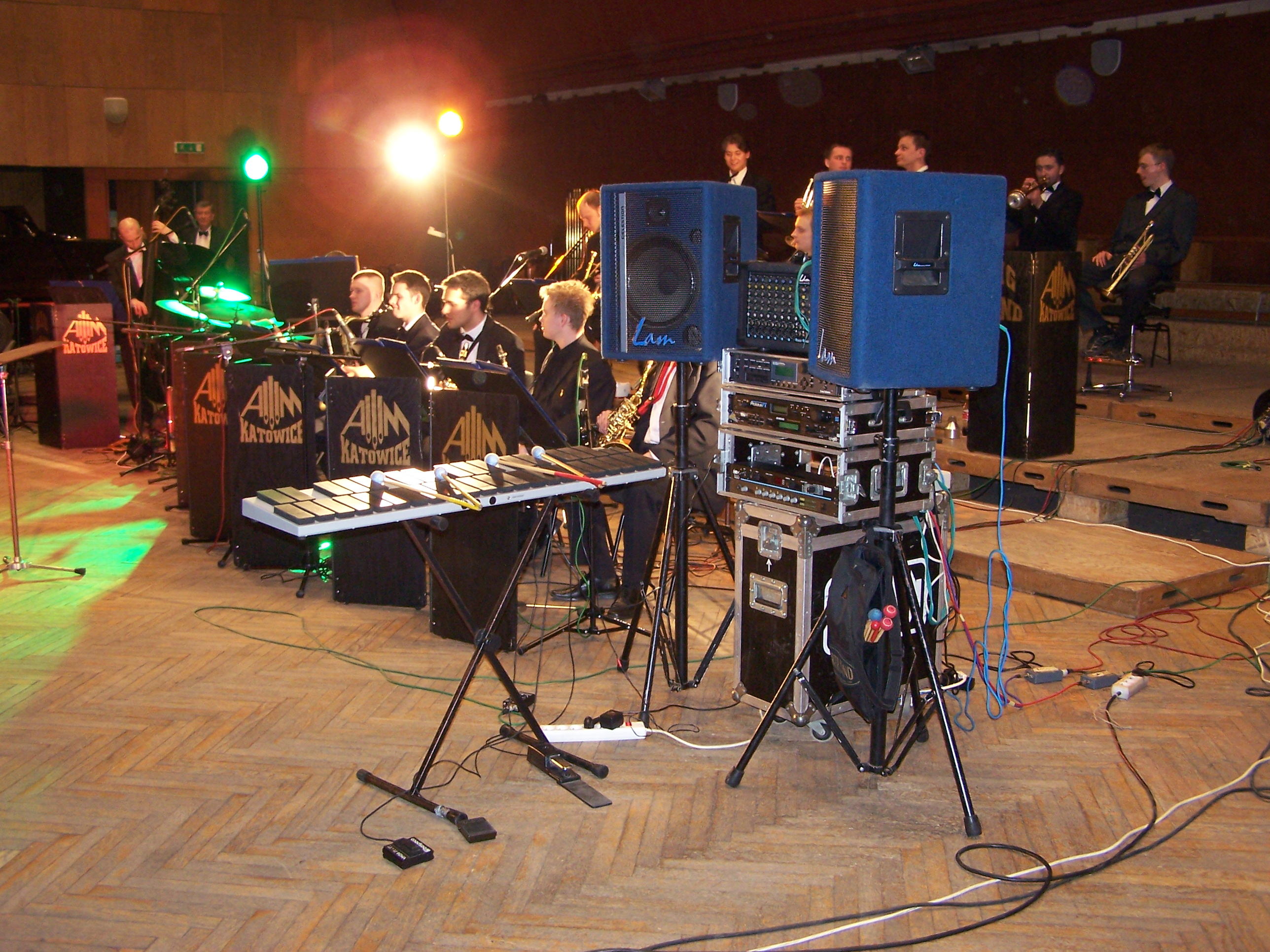 Mallet KAT MIDI Controller.